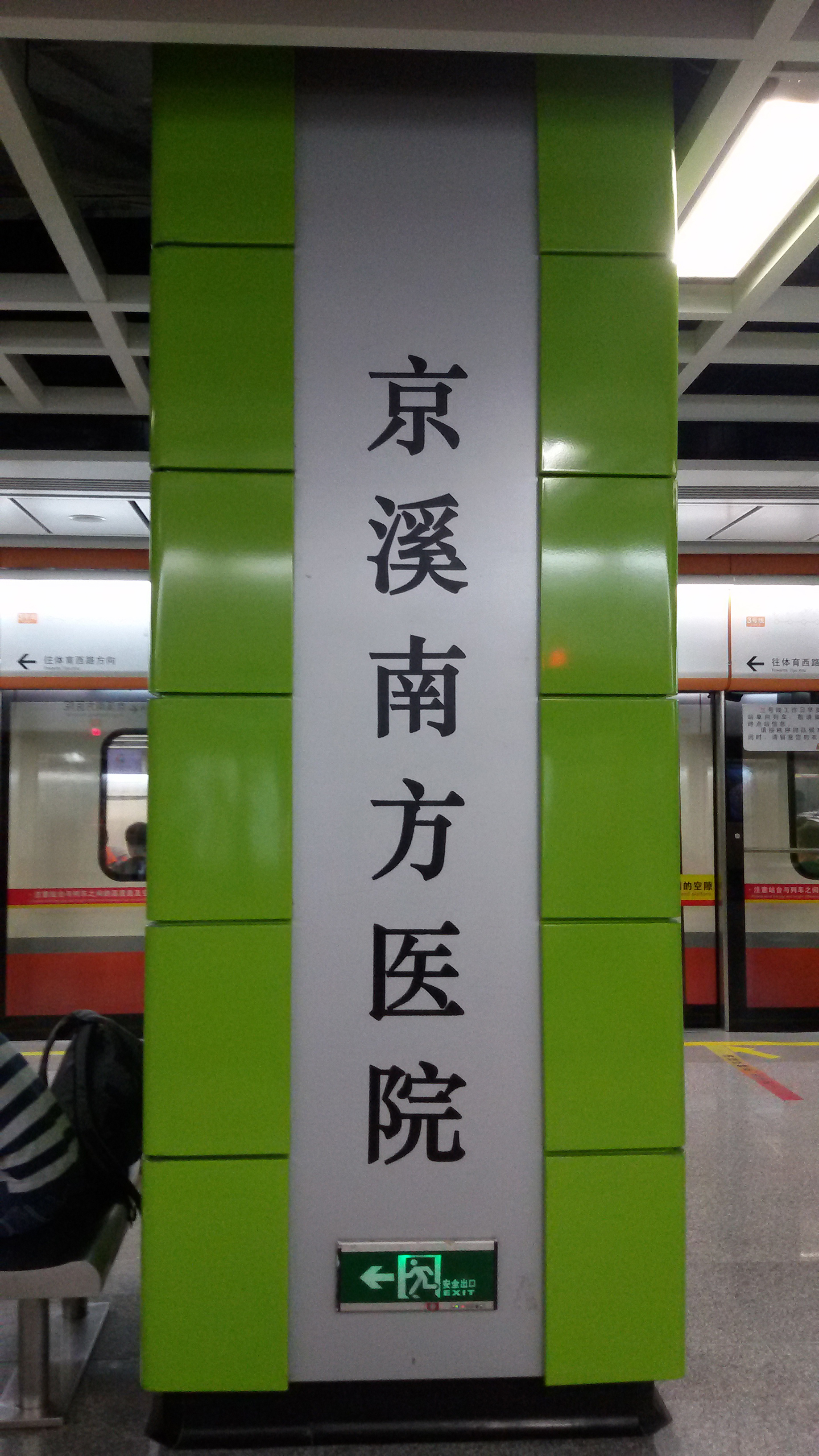 WORD on PILLAR for Jingxi Nanfang Hospital Station in Guangzhou Metro 粵語: 廣州地鐵，京溪南方醫院站嘅柱上面啲字。